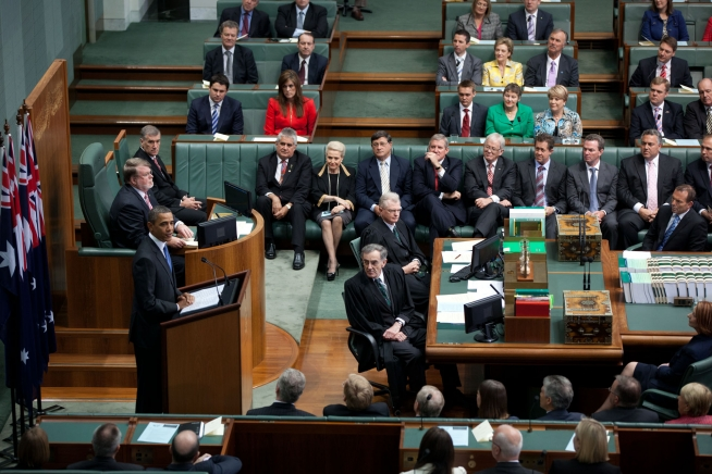 U.S. President Barack Obama addresses a joint session of the Australian Parliament in the House of Representatives at Parliament House in Canberra on November 17, 2011.